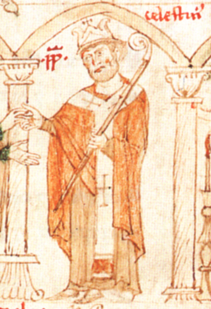 Image of pope Celestine III